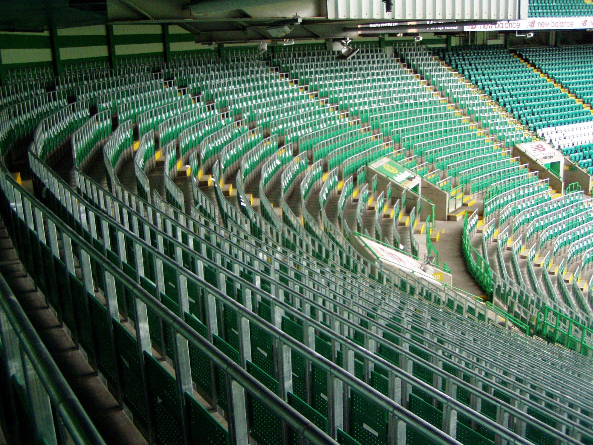 The rail section at Celtic Park, Glasgow, Scotland, on the day it opened as the first such area of safe standing in the UK, 16.07.2016